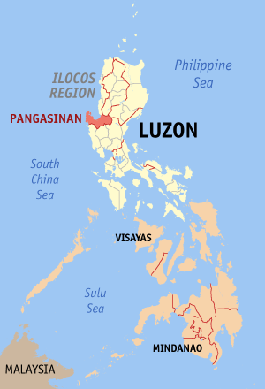 Map of the Philippines showing the location of Pangasinan